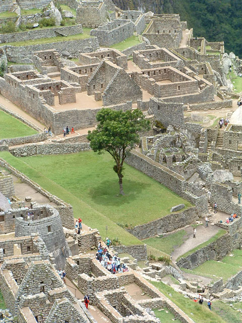 This tree is found in the center of Machu Picchu and is said to be 500 years old. Photo by Vishal Agarwala. Note: An old black and white photo (~1920-1930) of Machu Picchu shows the same tree, but at 5-6 years old!